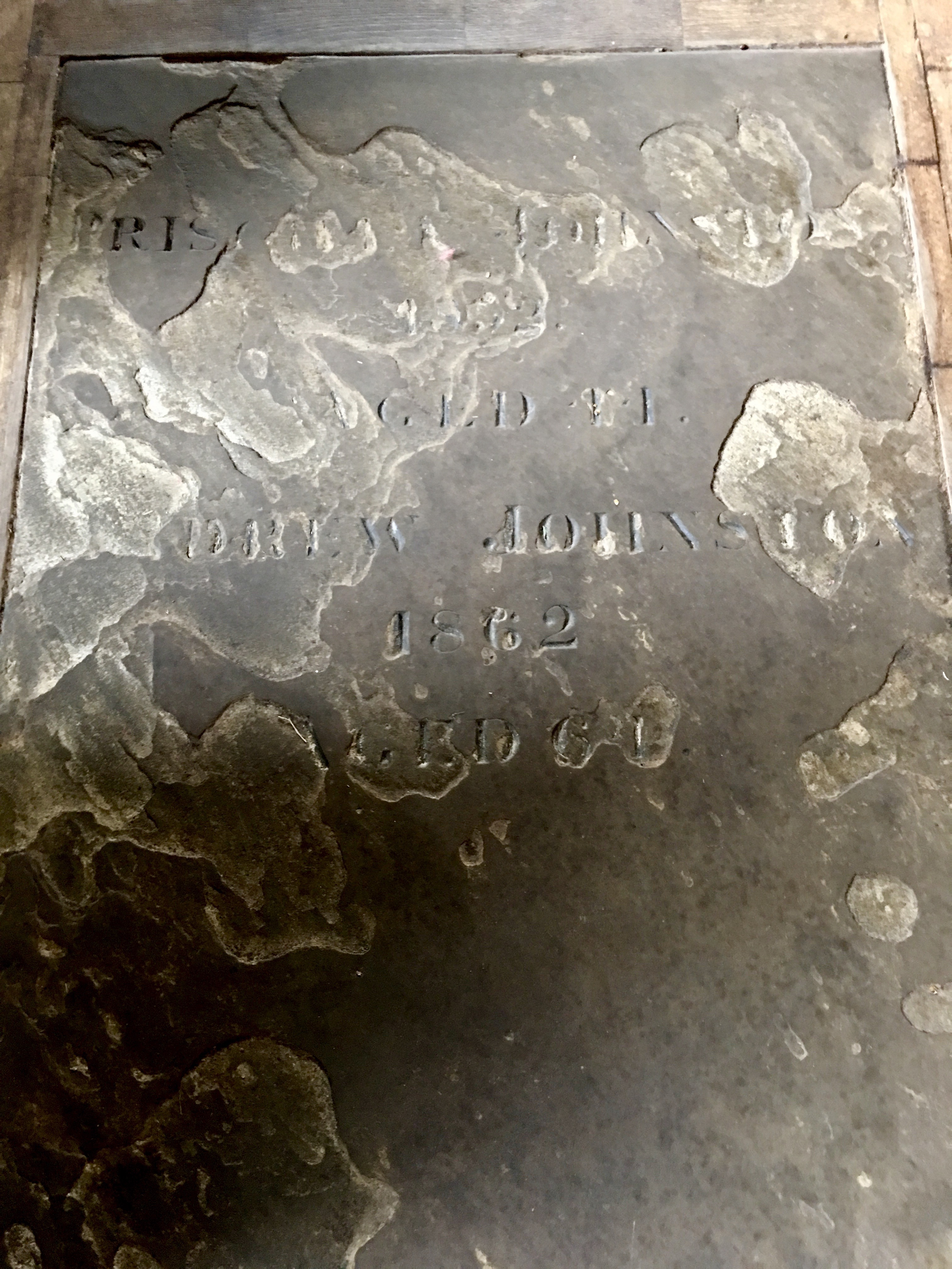 Overstrand Church, down the road from Northrepps Hall (home of the Buxtons)